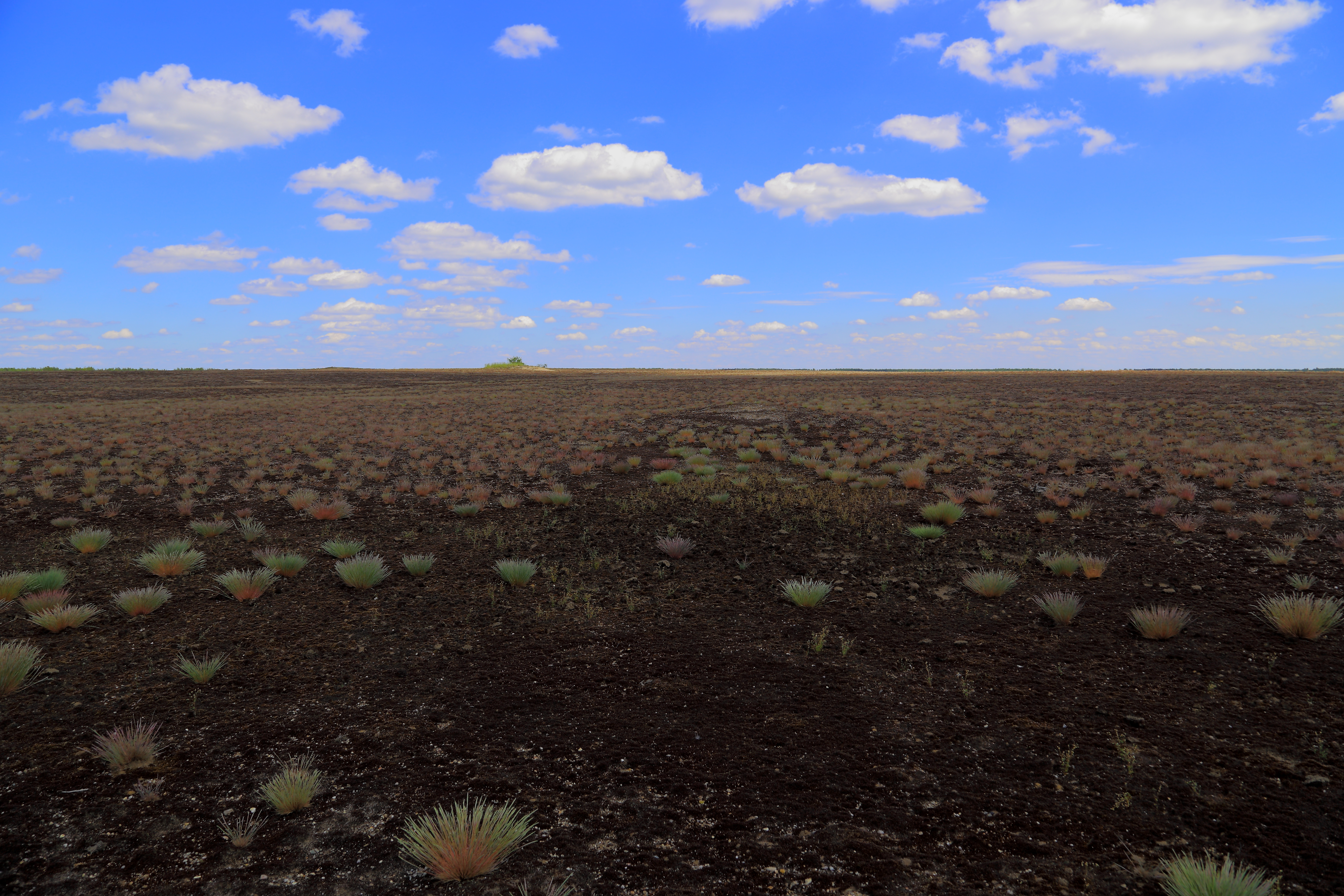 Lieberose Desert (Lieberoser Wüste) in the Lieberoser Heide near Lieberose, Landkreis Dahme-Spreewald, Brandenburg, Germany. It is Germany's largest desert. (Photo taken on a guided tour.)